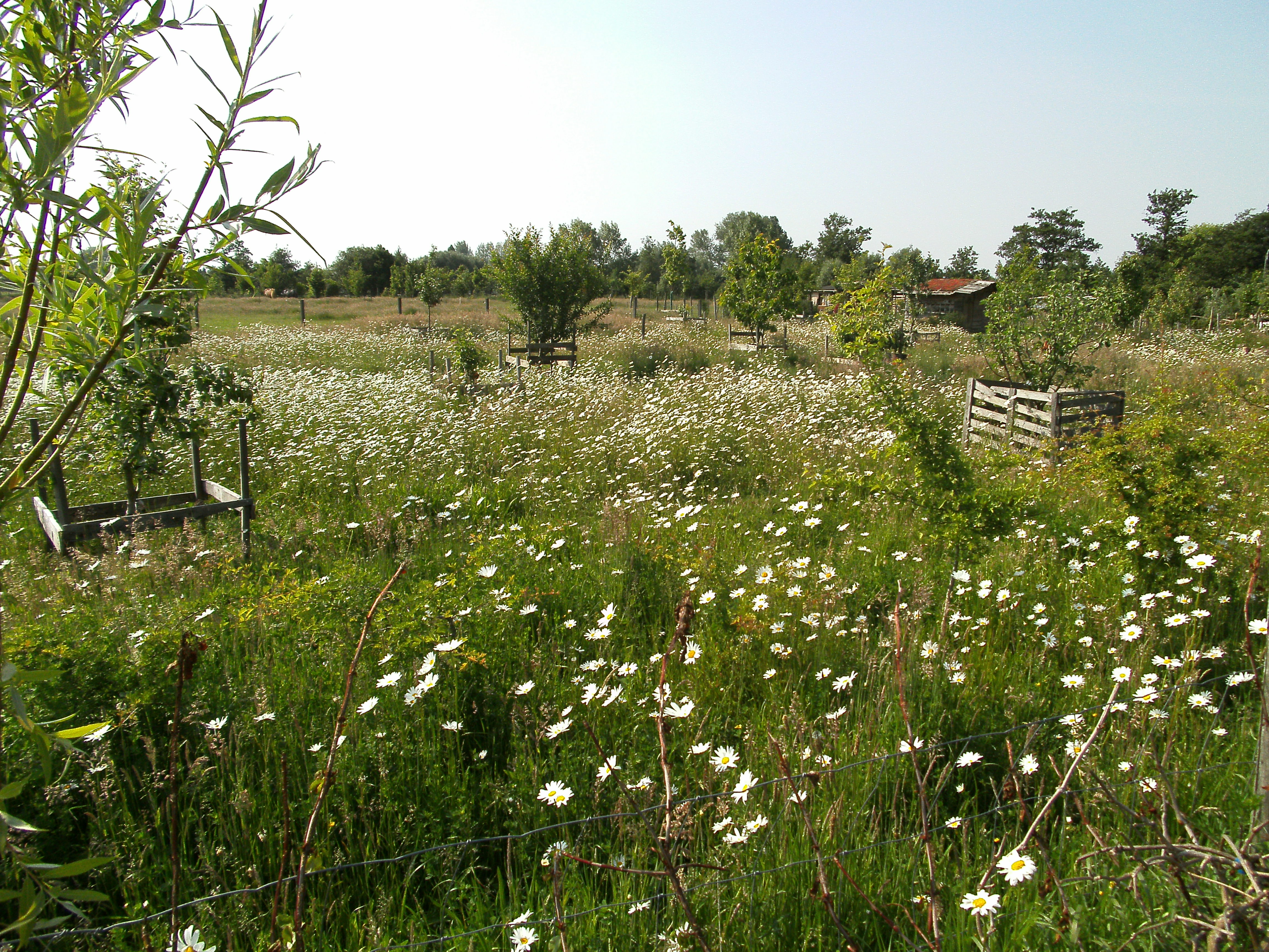 A field full of oxeye daisies